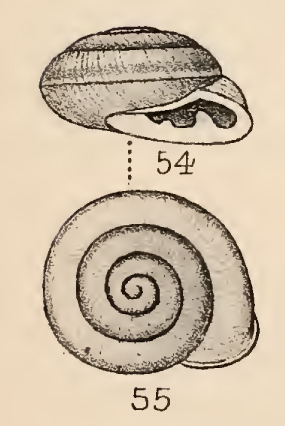 Drawing of Pleurodonte josephinae nevisens, the Nevis' subspecies